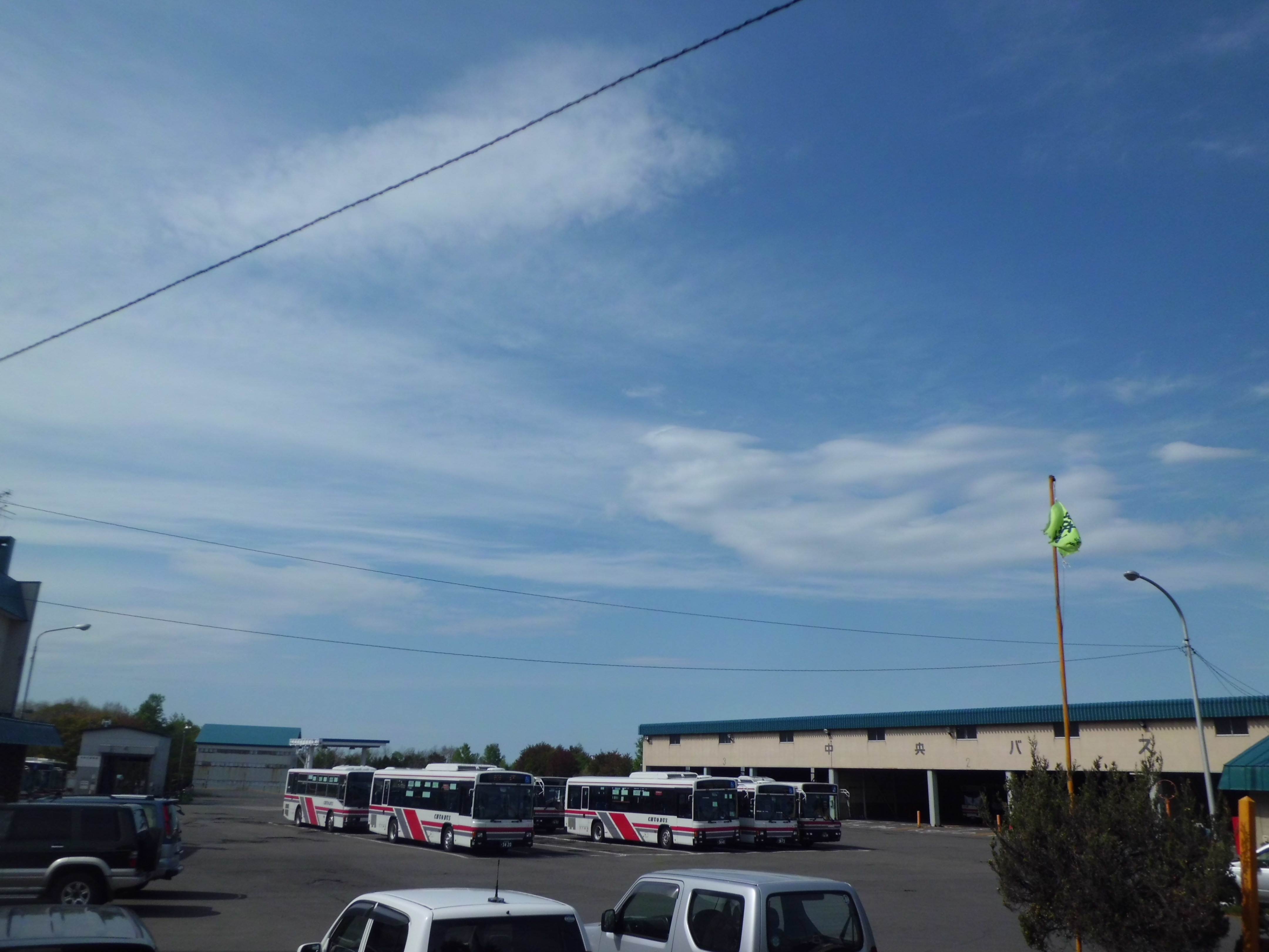 Hokkaido Chuo Bus Omagari Office